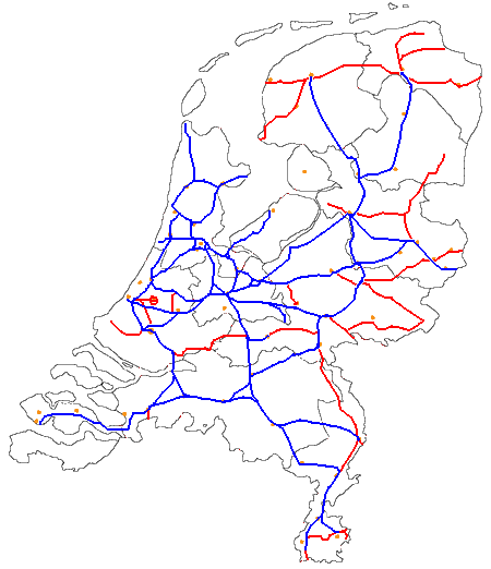 The Dutch rail network, own work. The Hanzelijn still missing.